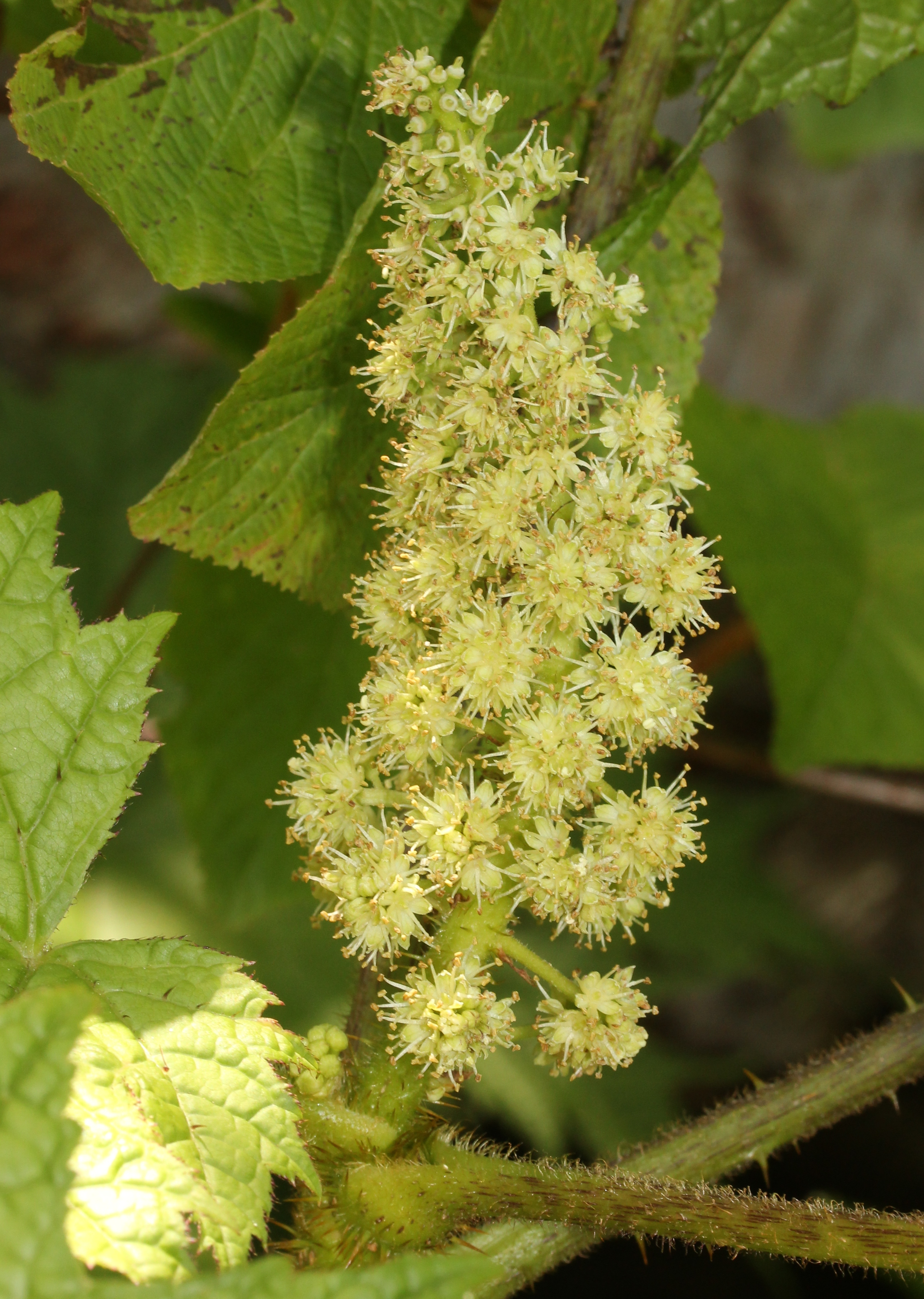 Flower of Oplopanax japonicus, in Mount Haku, Gifu pref., Japan.